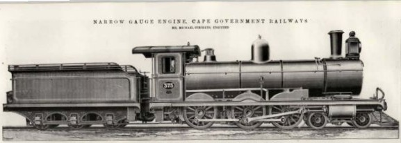 South African Railways Class 6A 4-6-2 no. 485 (ex Cape Government Railways no. 375)